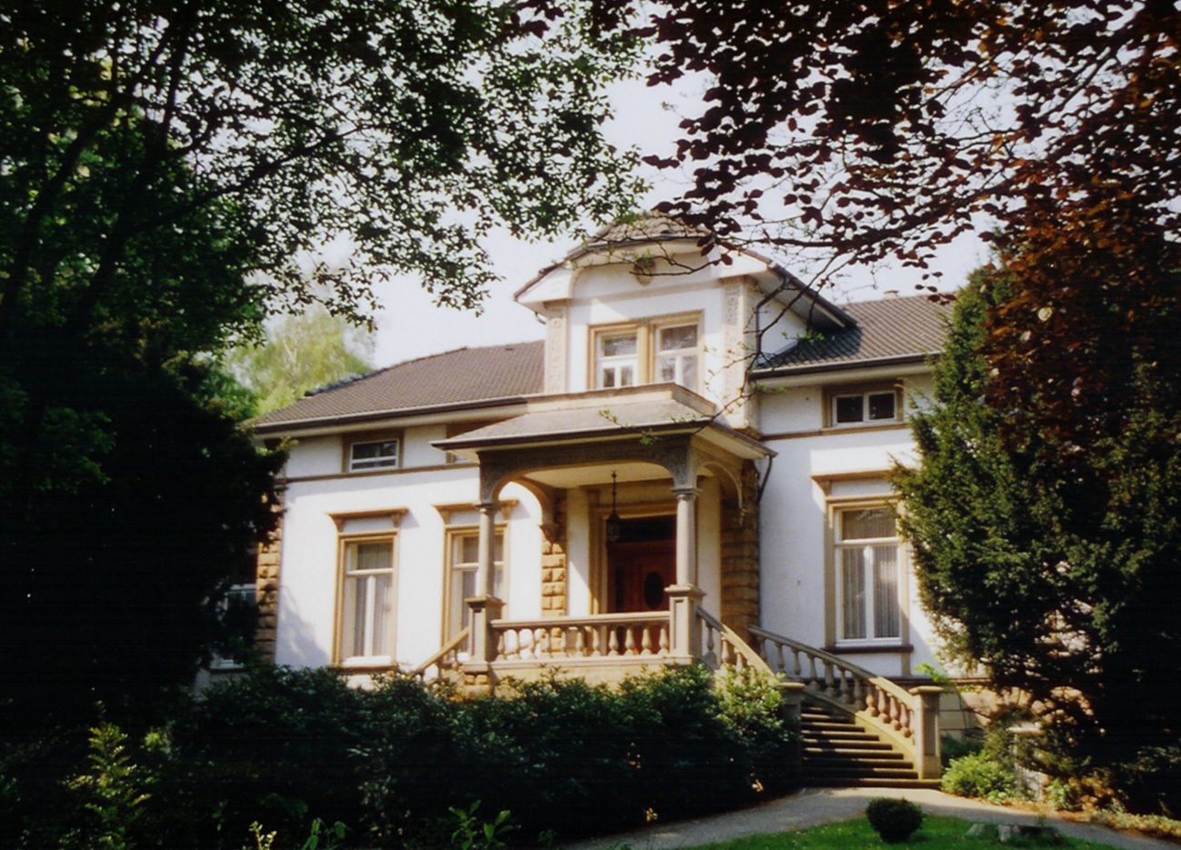 Franciscan Friary, situated in the villa Voß up de Burg aka Burg Voß (Voß Castle) in Mettingen, Kreis Steinfurt, North Rhine-Westphalia, Germany.